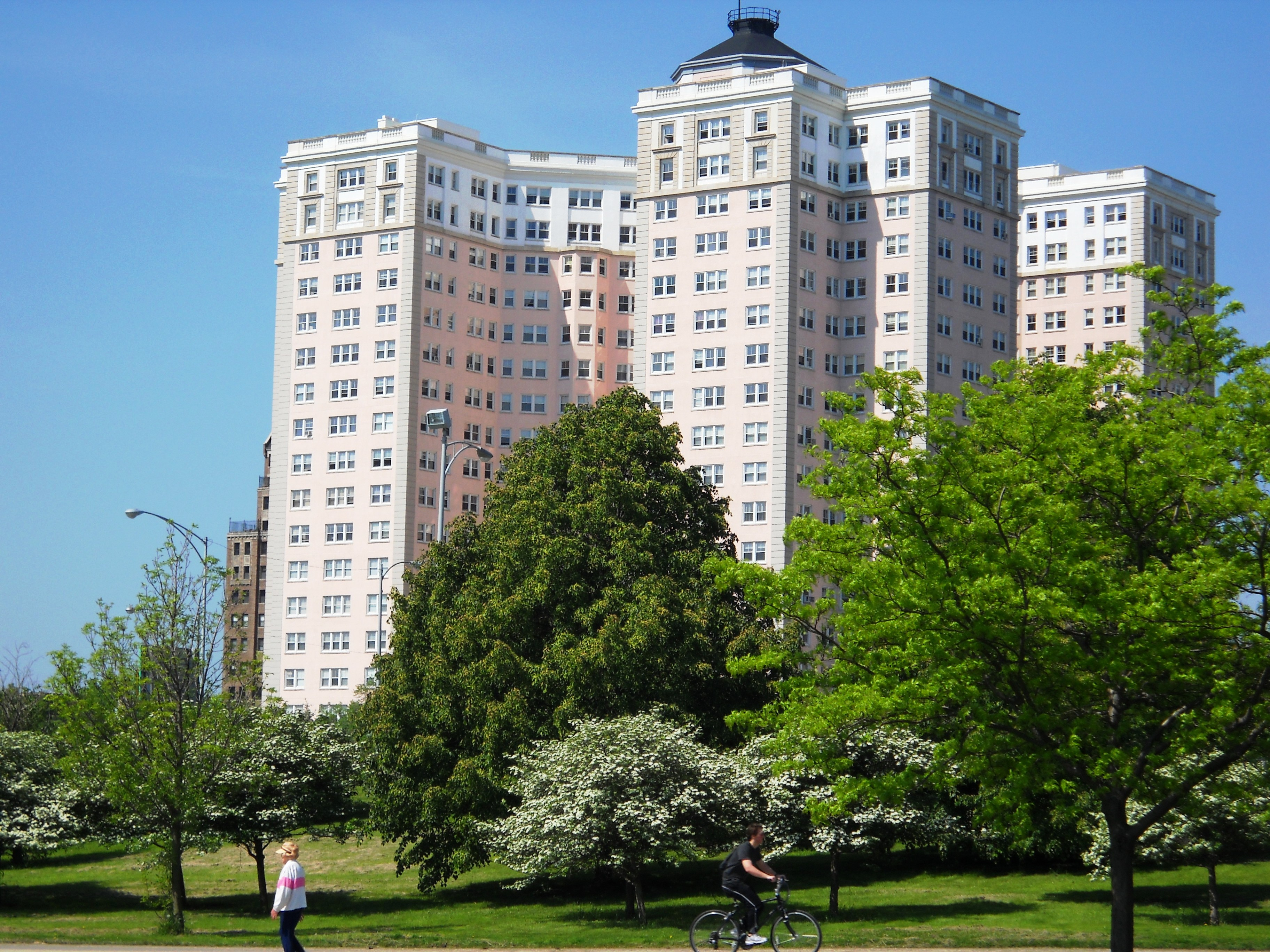 Historic Edwgewater Beach Neighborhood Chicago, IL USA